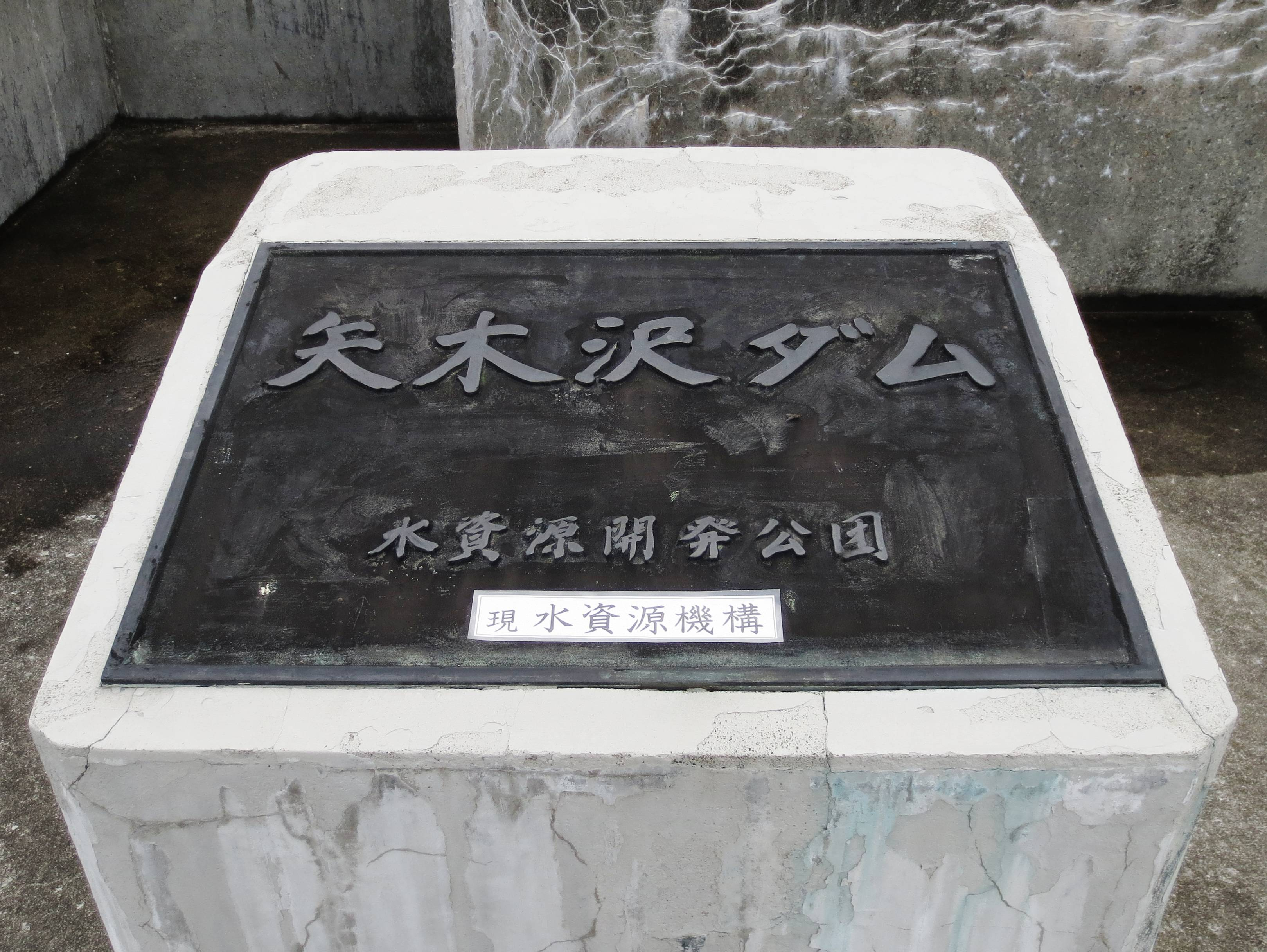 Yagisawa Dam nameplate.